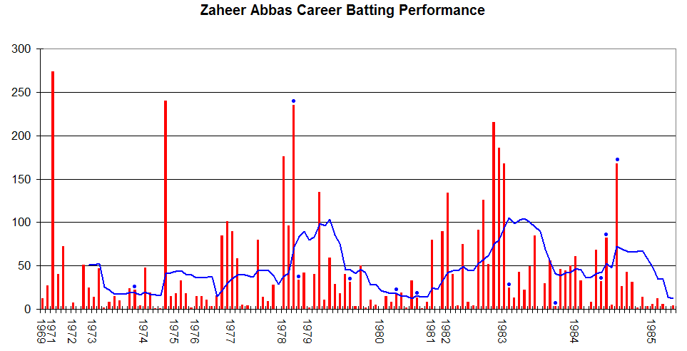 This graph details the Test Match performance of Zaheer Abbas. It was created by Raven4x4x. The red bars indicate the player's test match innings, while the blue line shows the average of the ten most recent innings at that point. Note that this average cannot be calculated for the first nine innings. The blue dots indicate innings in which Abbas finished not-out. This graph was generated with Microsoft Excel 2002, using data from Cricinfo and .au.